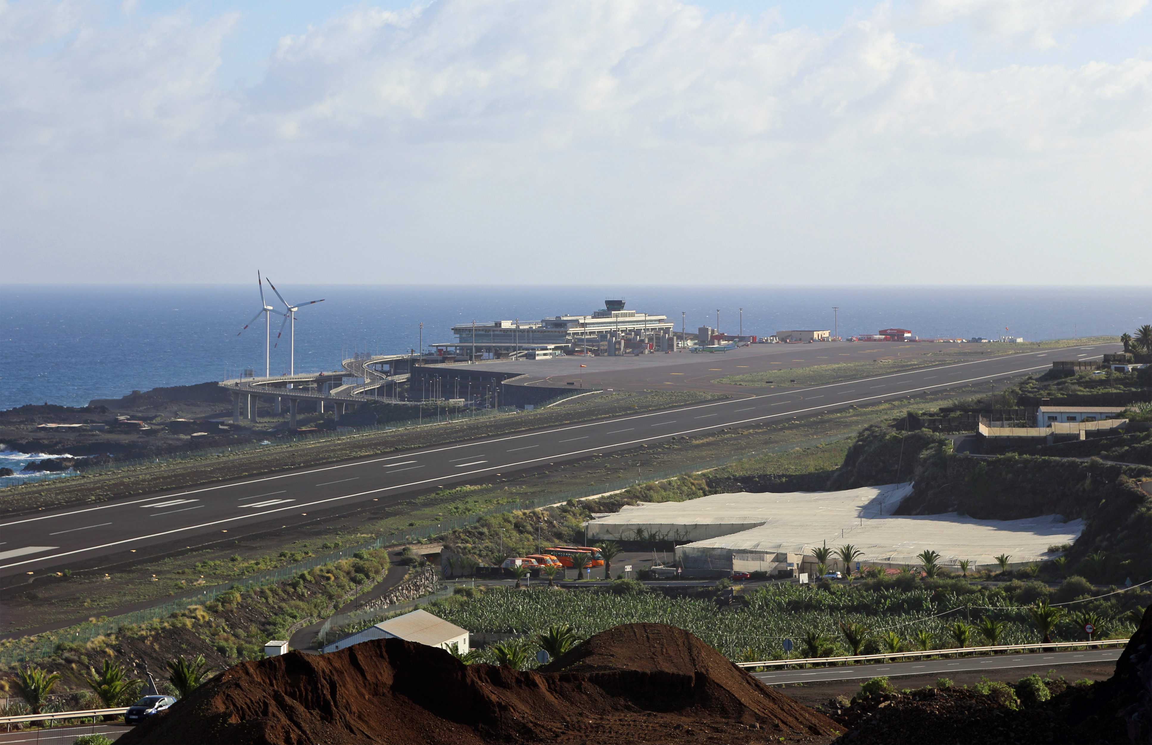 La Palma Airport (Canary Islands)